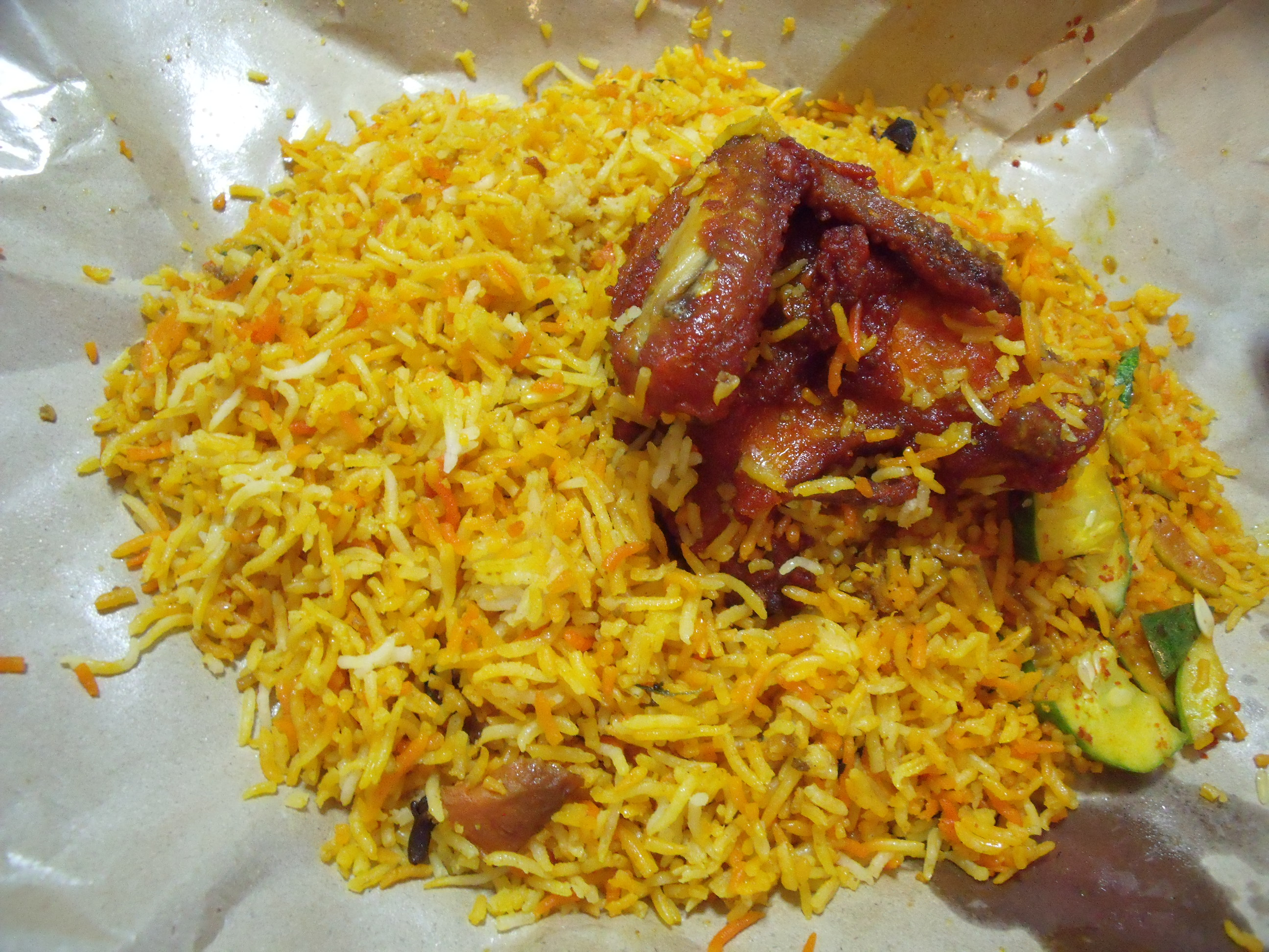 Nasi Biryani sold in Bukit Batok, Singapore